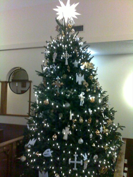 Chrismon Tree at St. Alban's Anglican Cathedral, Oviedo, Florida (Christmas 2010)